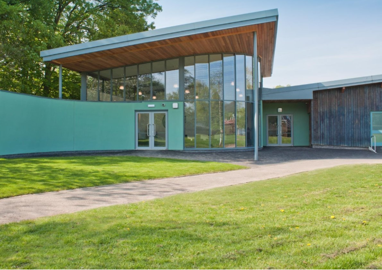 Image of Bewdley Arts Block